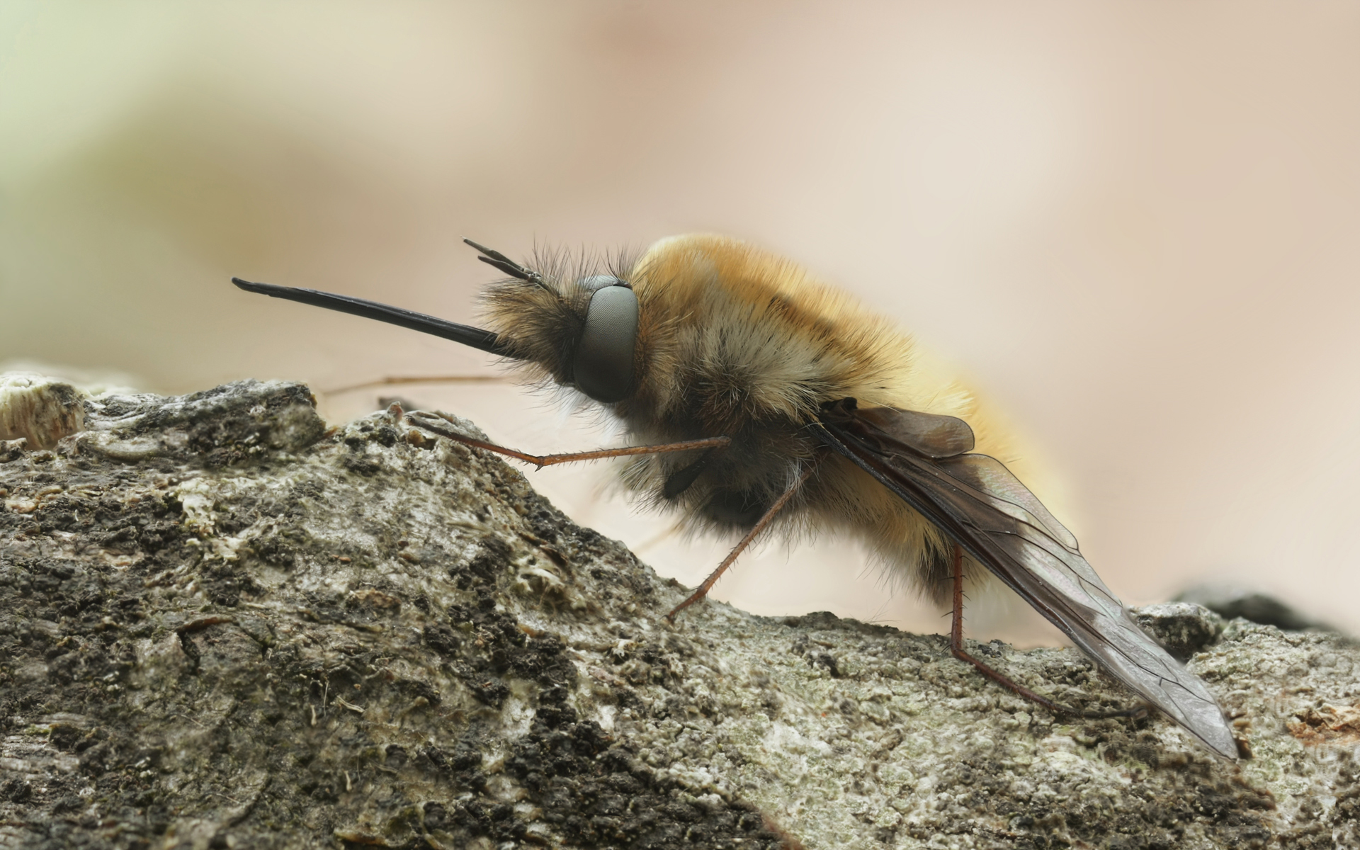 Bee-fly (Bombylius major) is a large genus of flies belonging to the family Bombyliidae (the bee-flies). The genus has a global distribution.